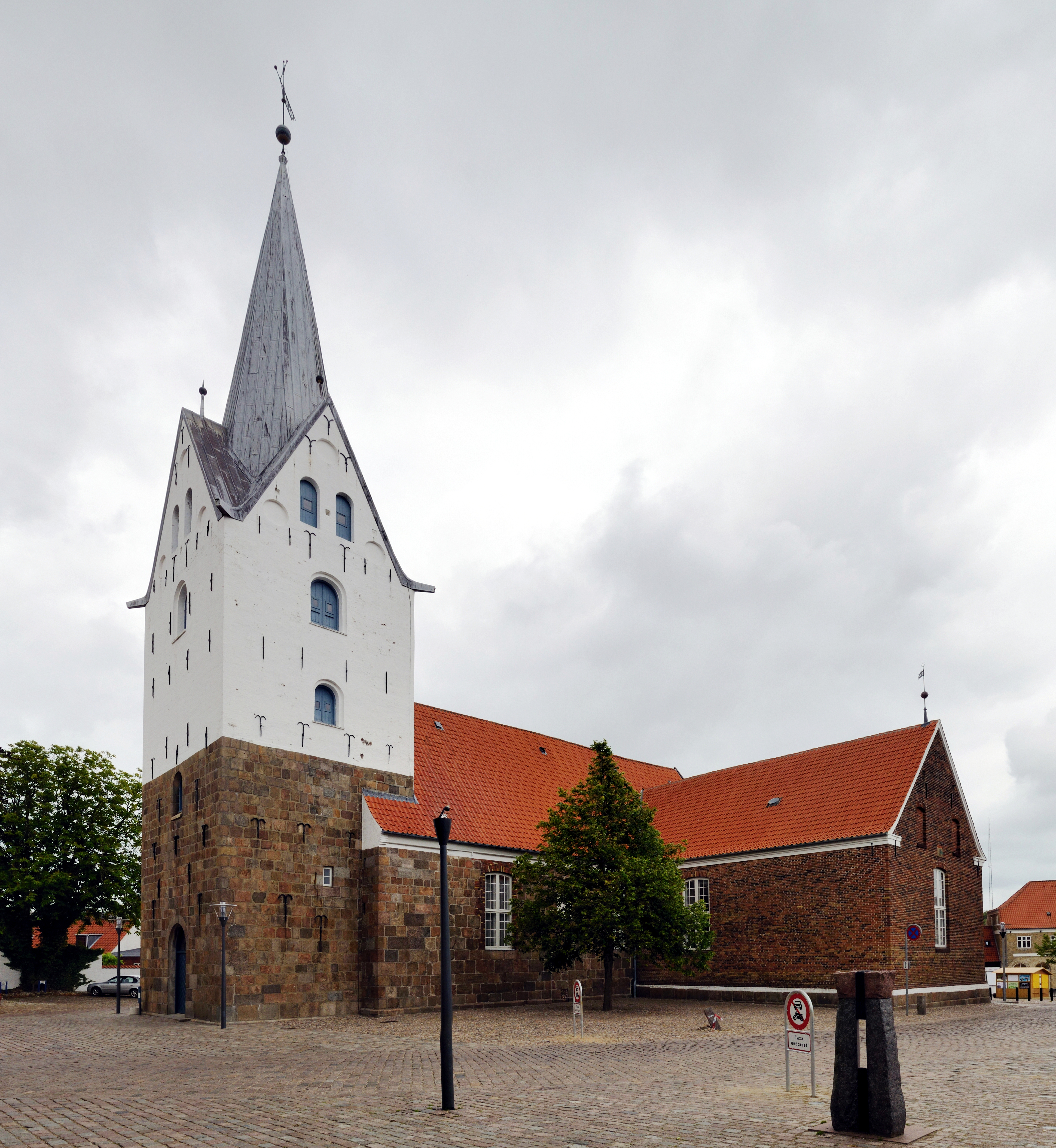 Varde: Saint Jacobs Church